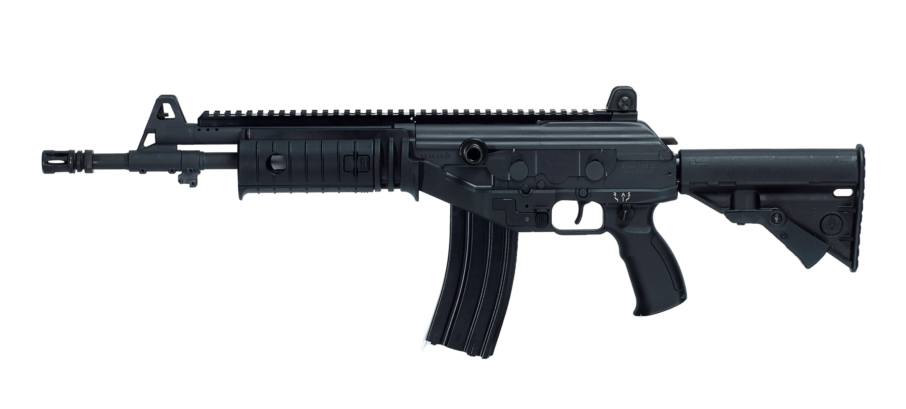 IWI Galil ACE